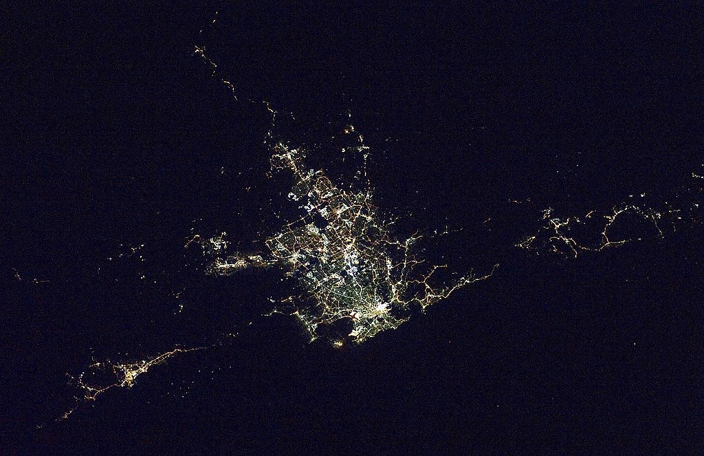 Satellite imagery by NASA of the Greater Sydney Area at night, 22 February 2012.